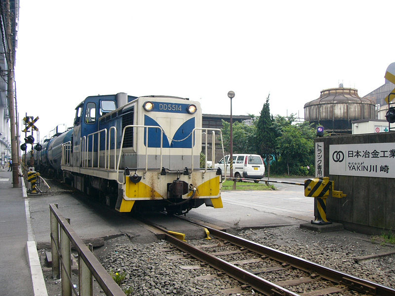 Kanagawa Rinkai Tetsudo (Seaside railway of Kanagawa). Place: Kojima-cho Kawasaki Kawasaki Kanagawa, Japan.